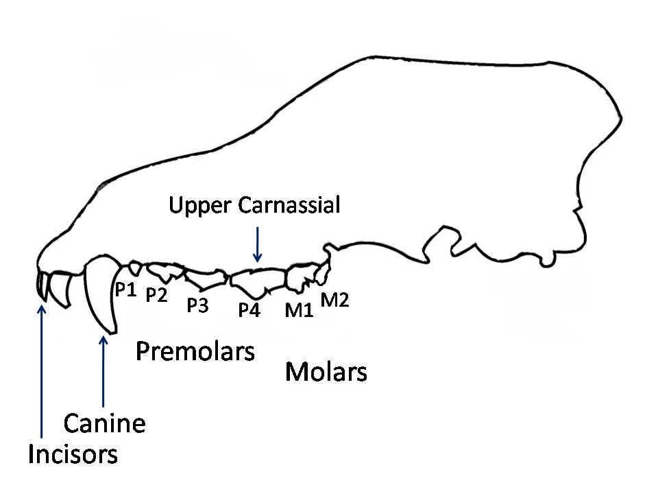 Wolf cranium diagram showing the names and positions of the teeth. The dental notation for the upper-jaw teeth uses the upper-case letters I to denote incisors, C for canines, P for premolars, and M for molars, and the lower-case letters i, c, p and m to denote the mandible teeth. Teeth are numbered using one side of the mouth and from the front of the mouth to the back.